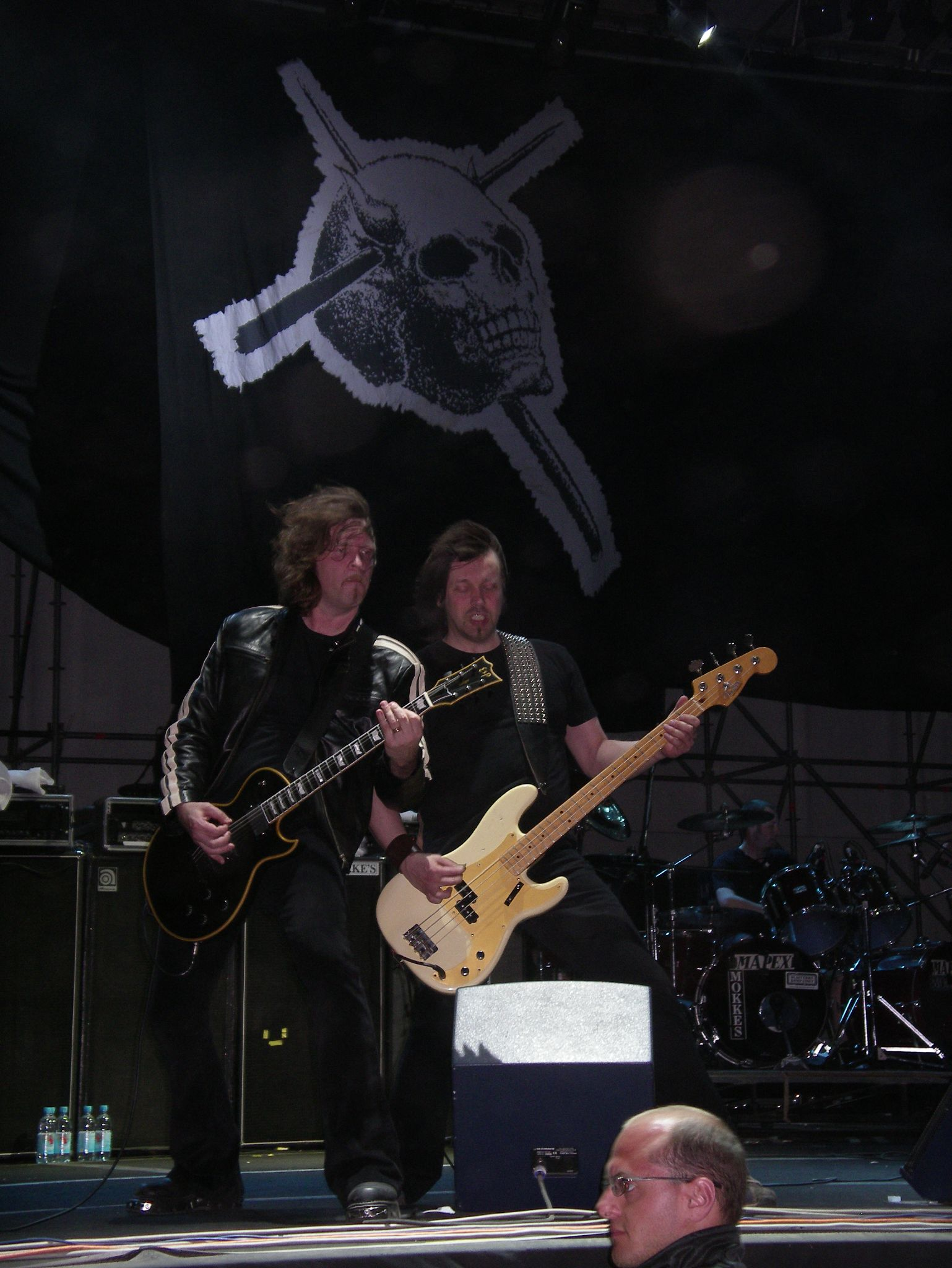 Leif Edling and Mats Bjorkman of Swedish Heavy metal band Candlemass